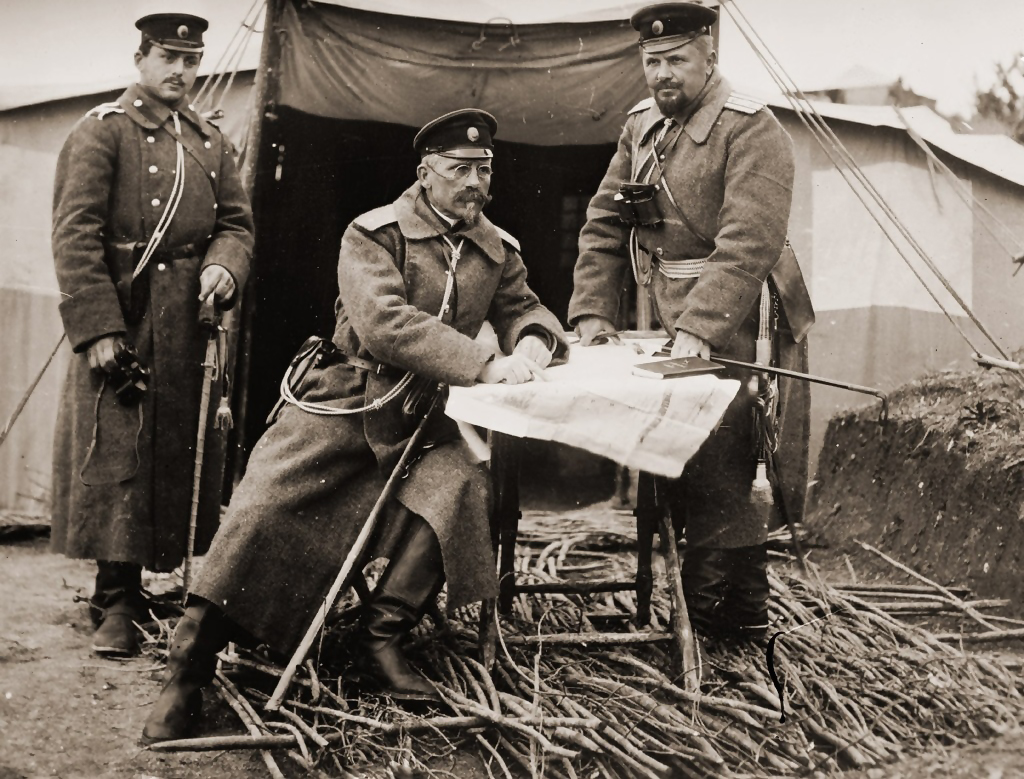 General Sarafov and Colonel Burmov, the chief-of-staff of 3th balkan regiment division.